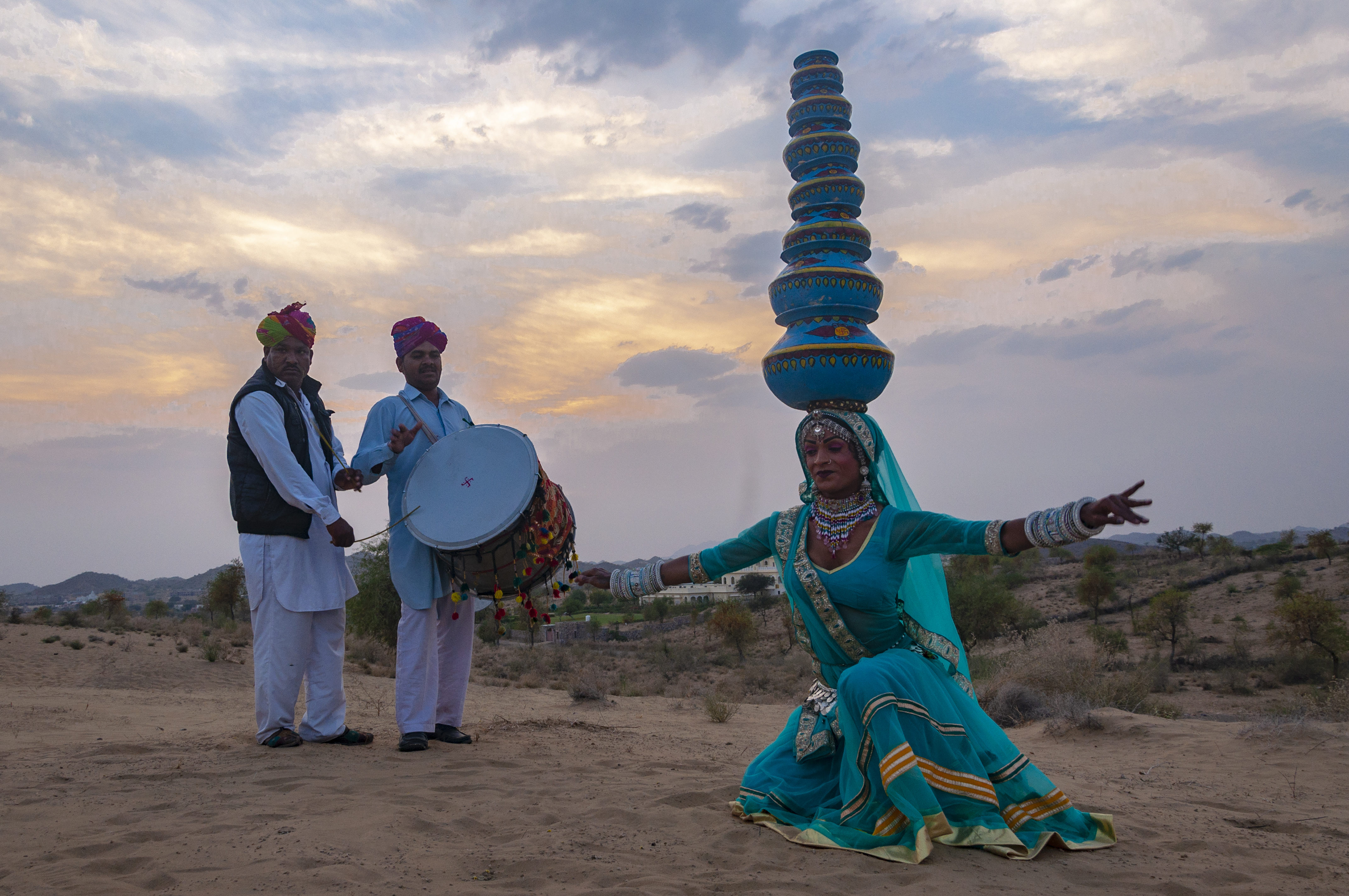 This photo has been taken in the country: India